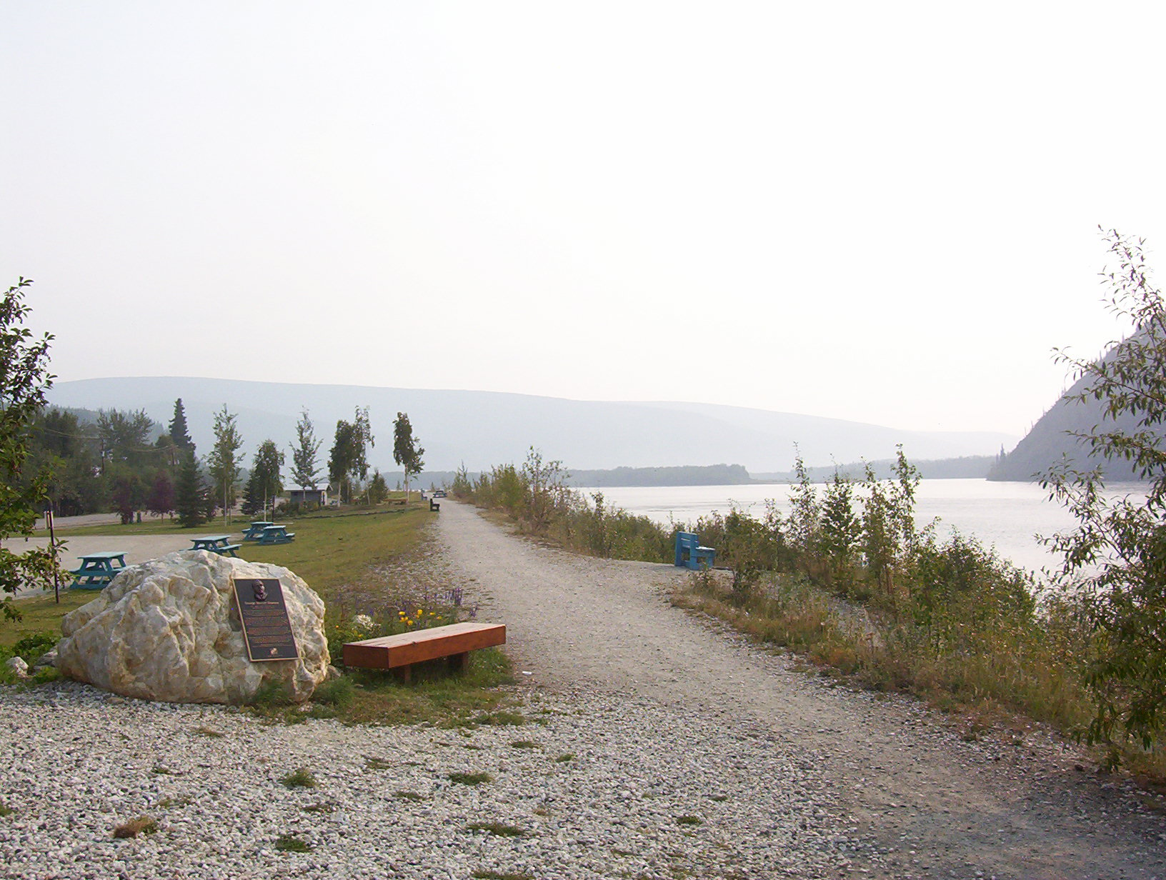 Monument of George Dawson in Dawson City, Yukon Picture taken on August 10th, 2005 by Janothird